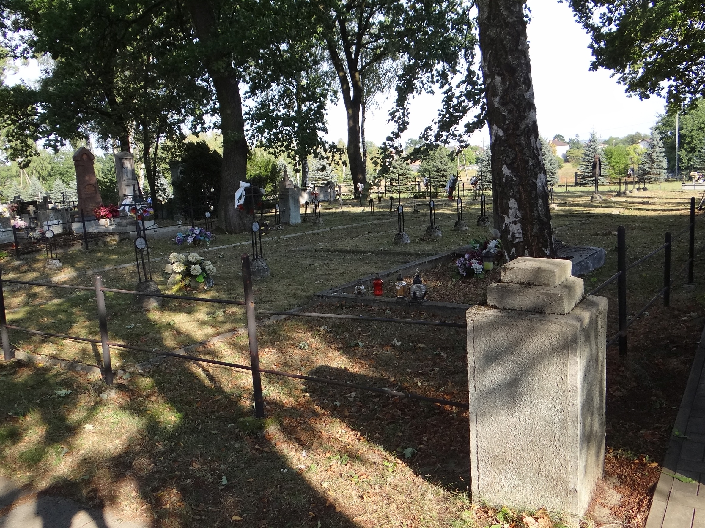 World War I Cemetery nr 253 in Żabno